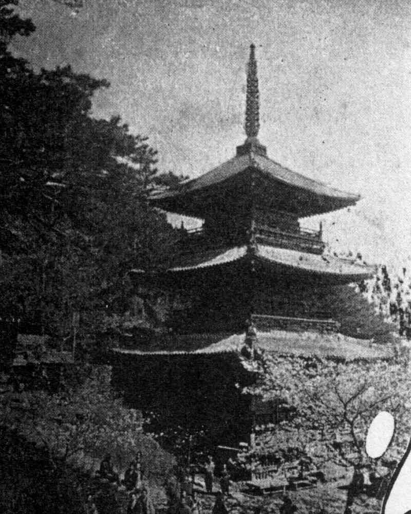 Ōtaki-san three-story pagoda (Tokushima, Japan)